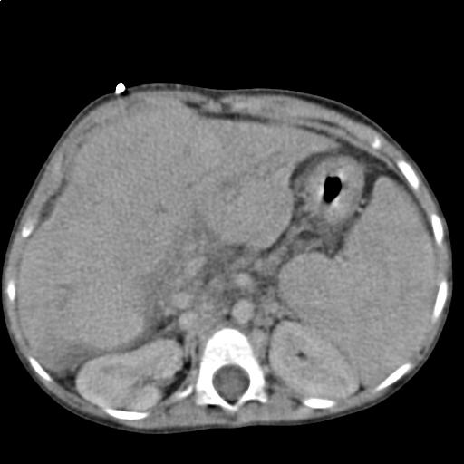 Abdominal computed tomography of a 3 year old child showing liver cirrhosis in transverse section.